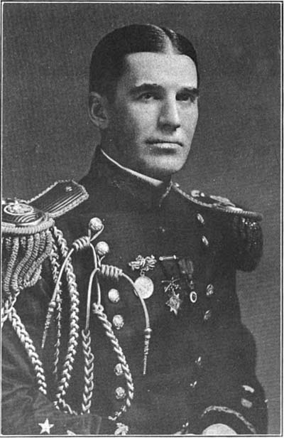 Depicted person: Sherman Bell – American army commander